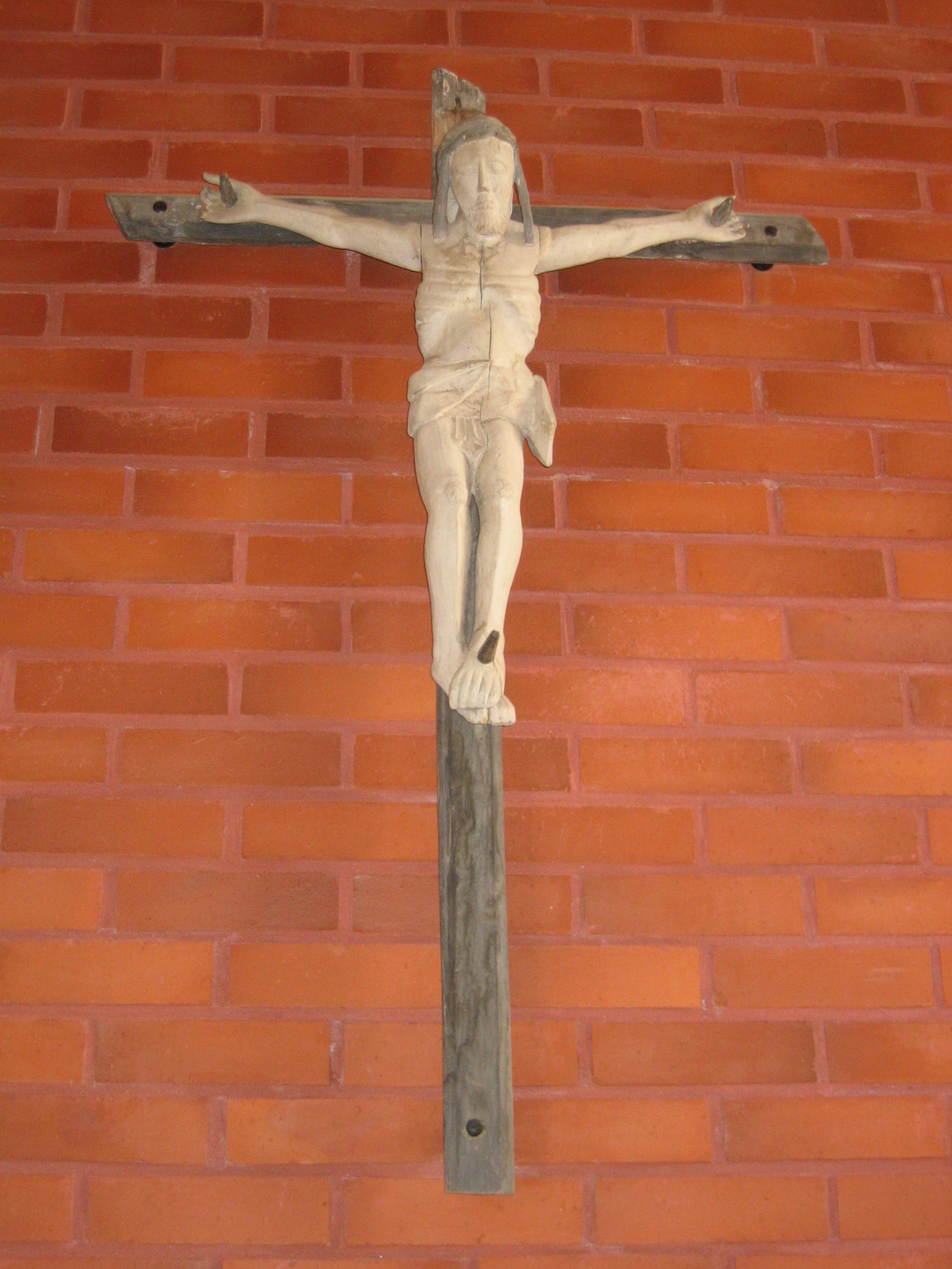 A wooden medieval crucifix in Mietoinen parish hall, Finland. Crucifix originally from the Hietamäki chapel.